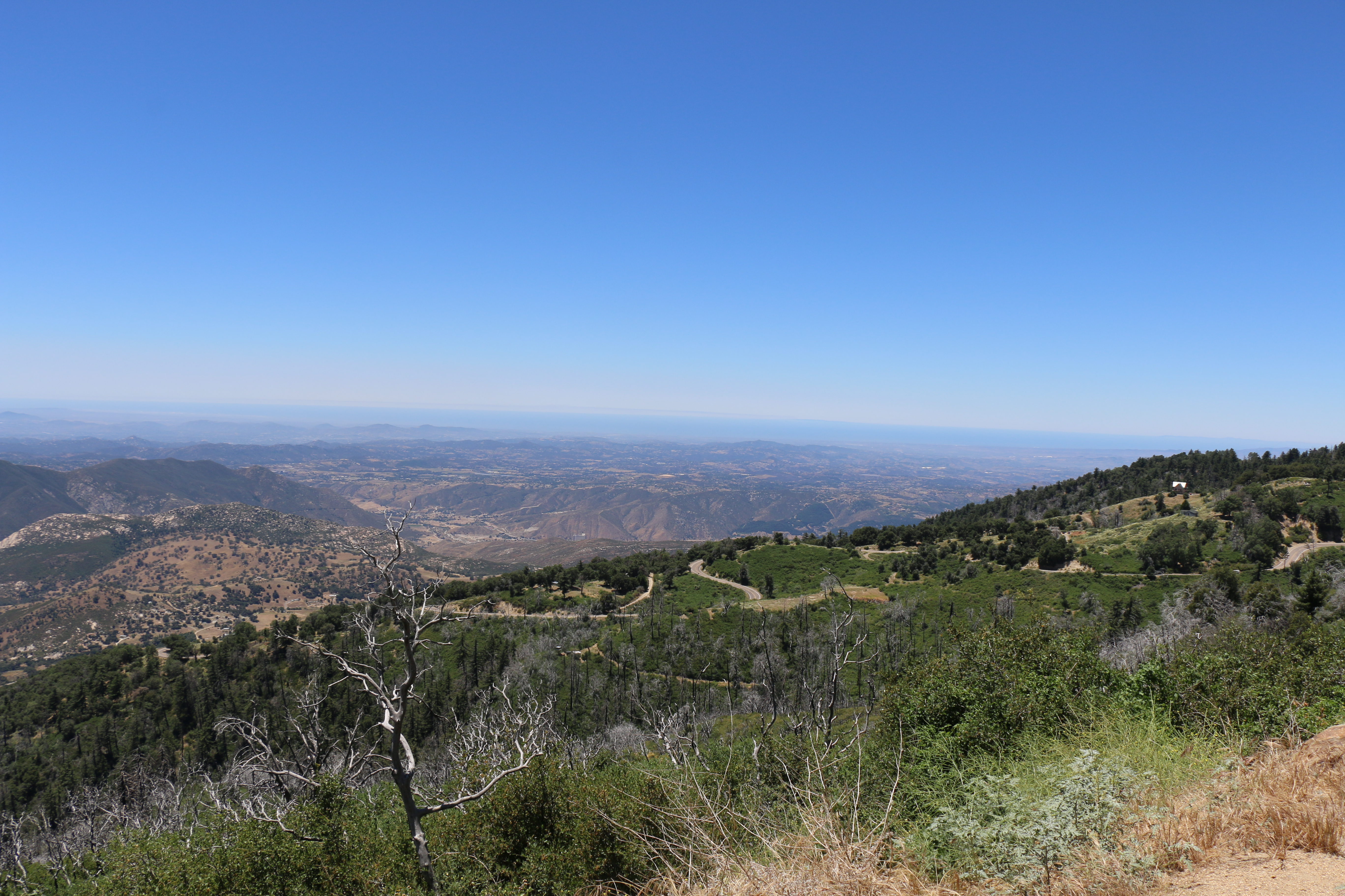 Photo by Joanna Gilkeson/USFWS.